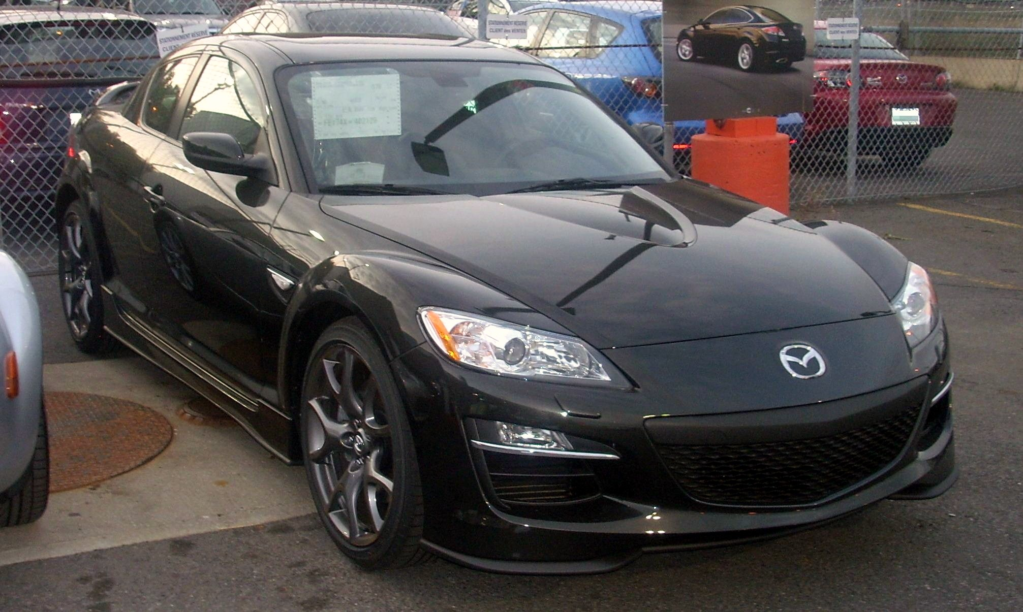 2009 Mazda RX-8 photographed in Montreal, Quebec, Canada.